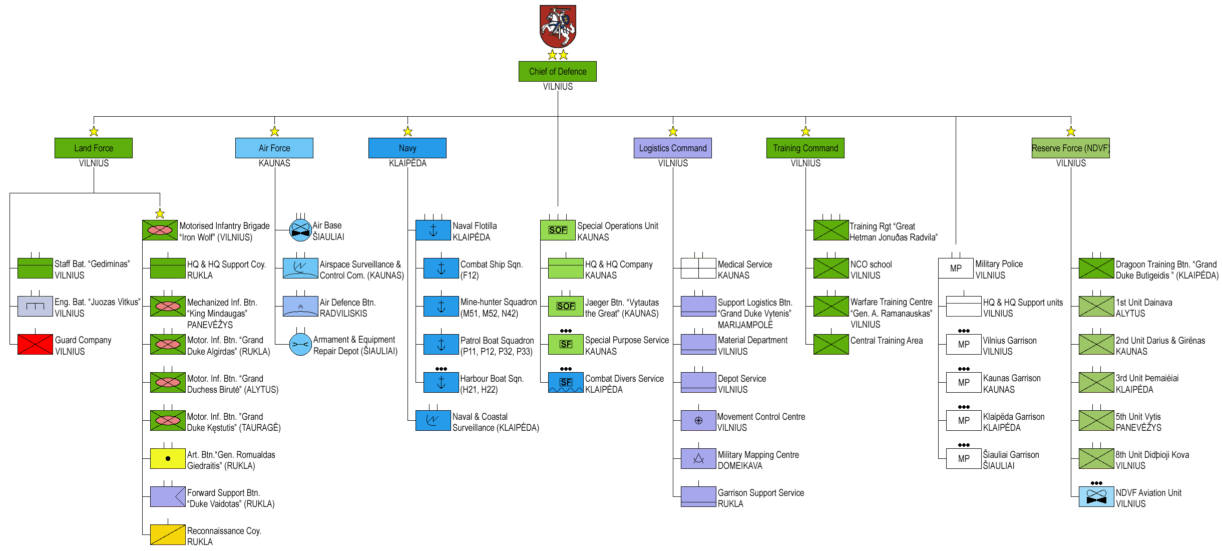 Structure of the Lithuanian Armed Forces 2009